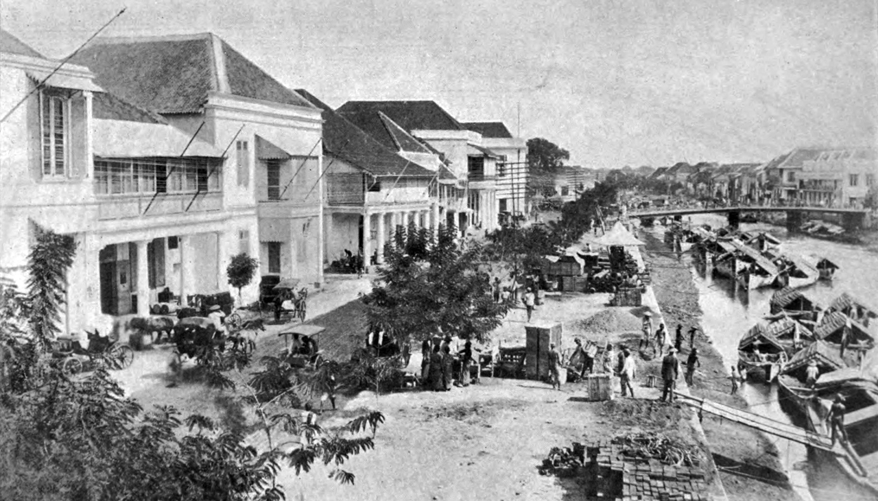 View of the Kali Mas River, Surabaya. Cropped, resized and re-normalized to black and white from the plate facing p64 of 'Java, Sumatra and Other Islands of The Dutch East Indies' by A. Cabaton. (Translated to English with a preface by Bernard Mill.) Published by T. Fisher Unwin, 1911. Image from full text available at The Internet Archive.